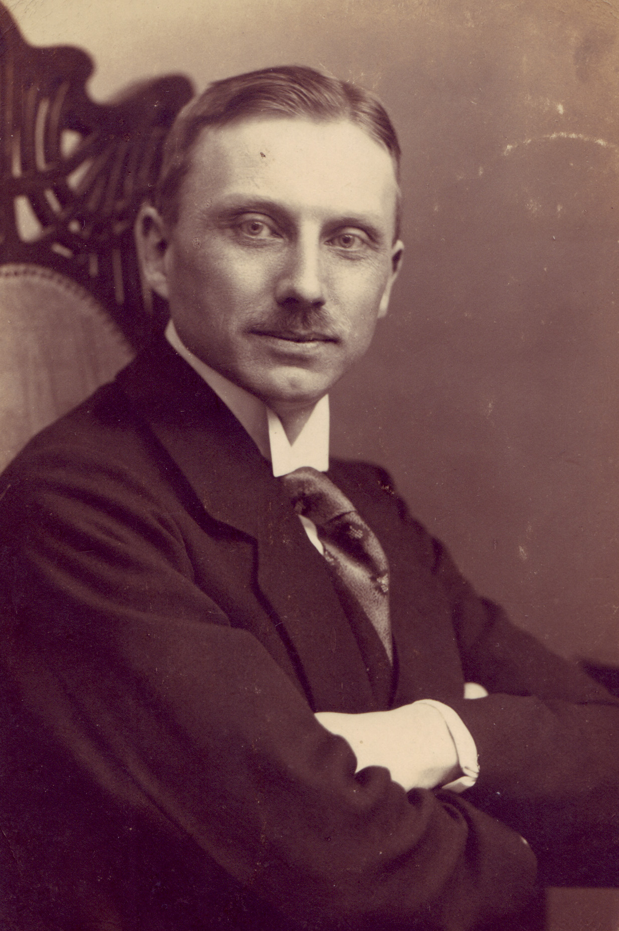 Christian Cornelius Jensen portrait